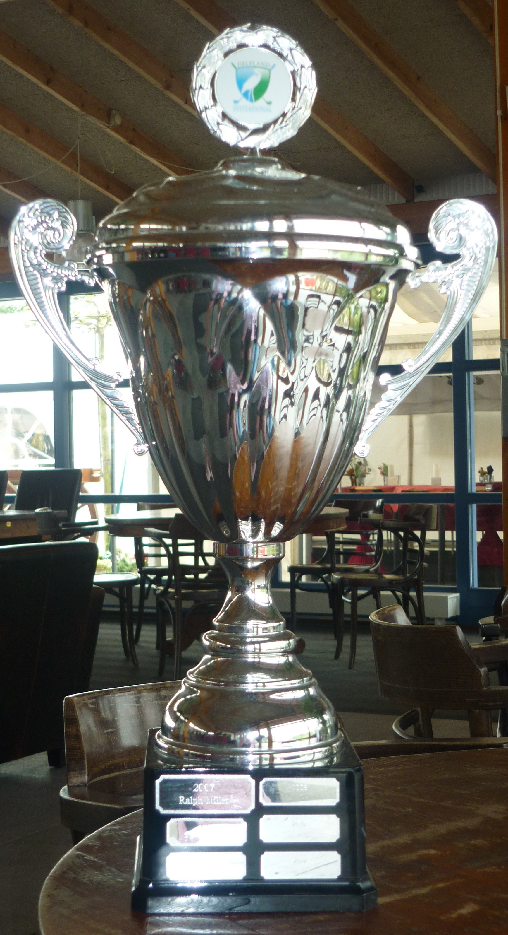 Trophy Delfland Invitational (men)